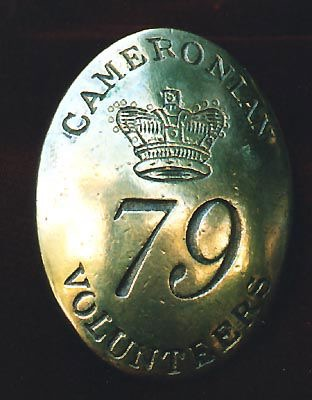 An extremely rare (one of three known) original belt-plate of the 79th Cameron Highlanders from the year of their formation (1793). Due to a War Dept. clerical error they were erroneously designated as the "Cameronian" Volunteers, a mistake later perpetuated when they were re-named the "Cameronian Highlanders". This was not corrected until 1804 after repeated petitions from both the Cameron regiment and the original Cameronian regiment, originally founded in 1689 by James Douglas, the Earl of Angus, as a Covenanter guard unit, later becoming the 26th Regt. of Foot, and then the Scottish Rifles.